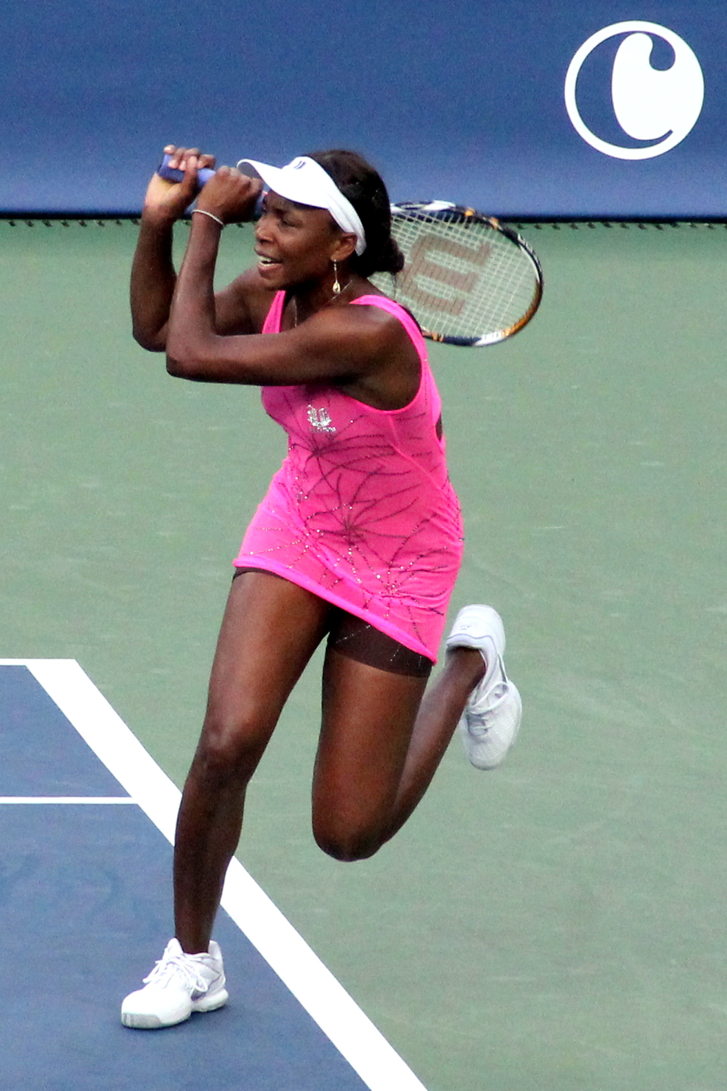 Venus Williams on Tuesday, 9/7, at the US Open. The Cosmopolitan is in New York for the 2010 US Open, inviting attendees and guests to experience signature views from our Overlook and in our custom designed suite with prime-stadium seating. For more information on The Cosmopolitan visit